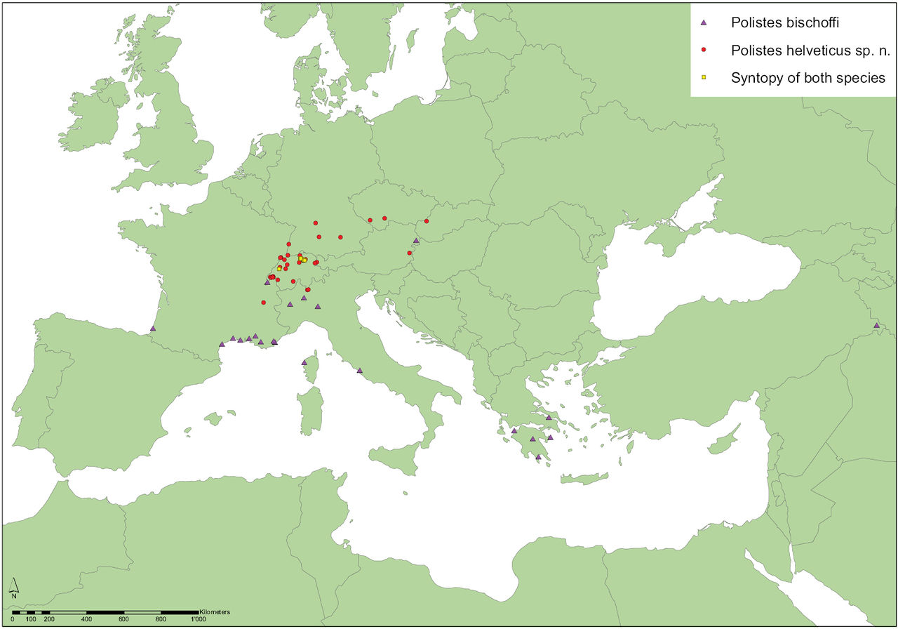 Distribution of examined specimens of Polistes bischoffi and Polistes helveticus at species description of Polistes helveticus